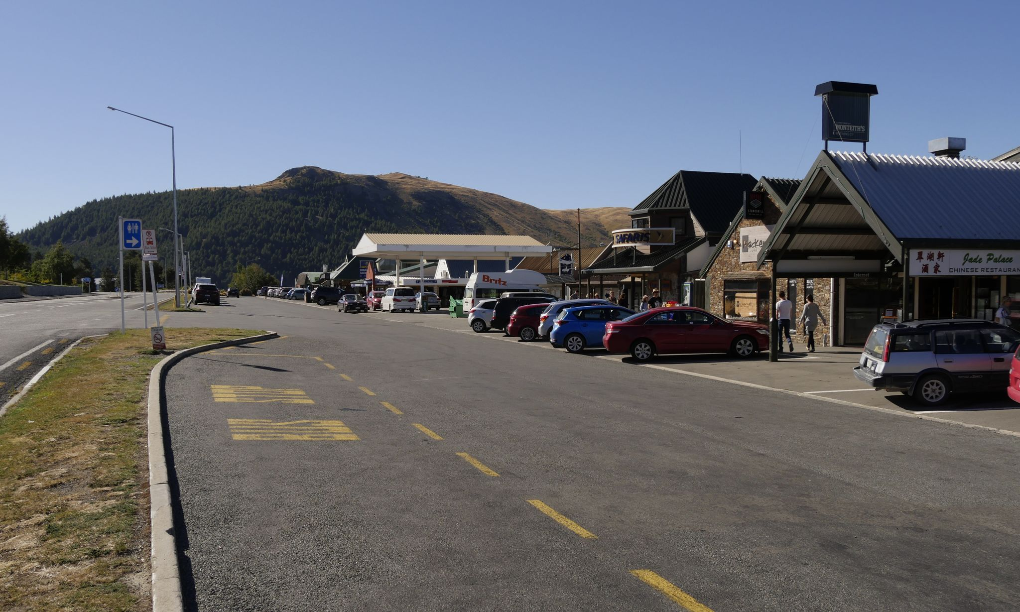 Lake Tekapo (Township, shopping line at SH 8), Mackenzie District, Canterbury Region, South Island, New Zealand